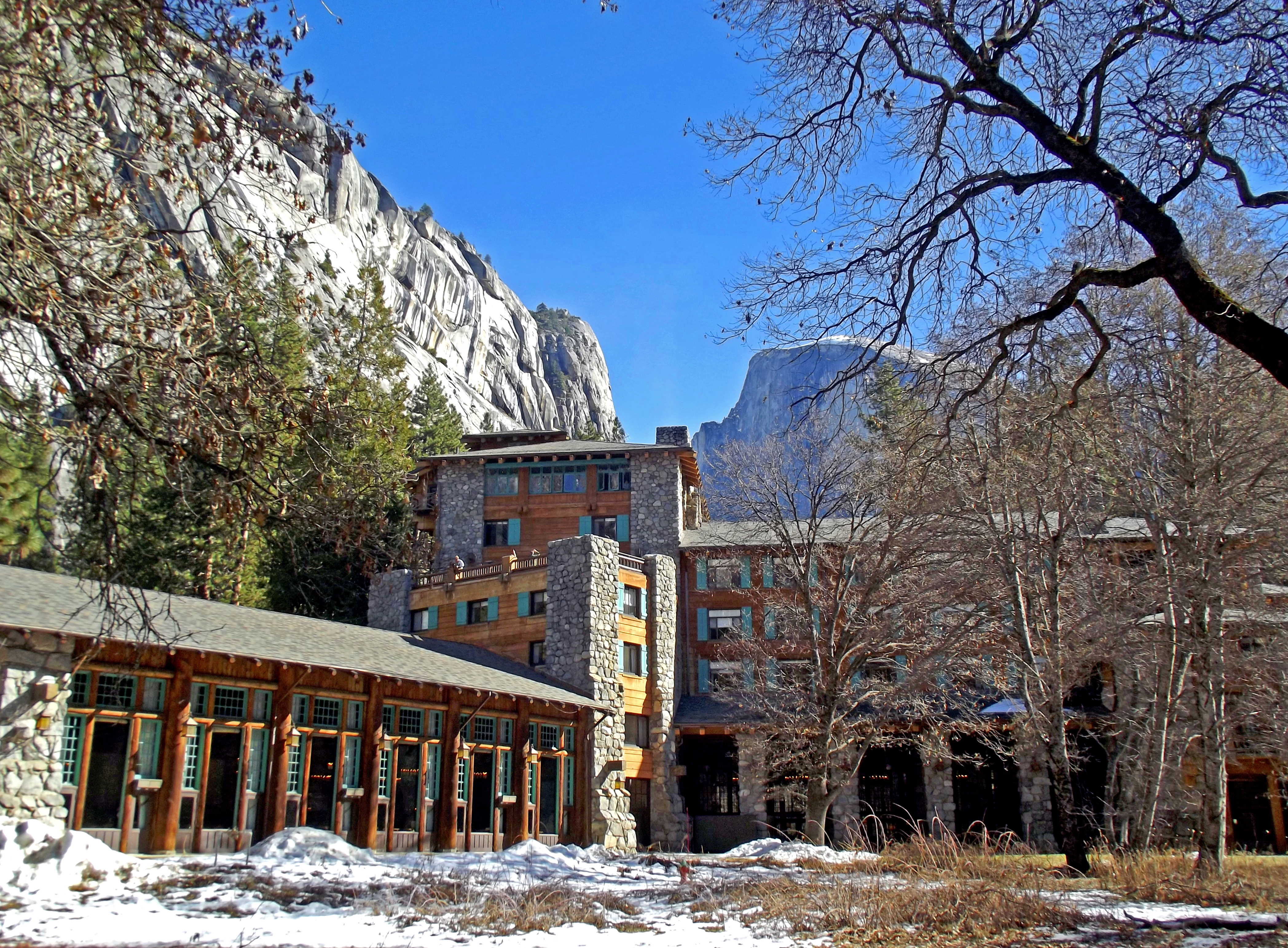 A view of Half Dome just past the Ahwahnee Hotel in Yosemite National Park, California.